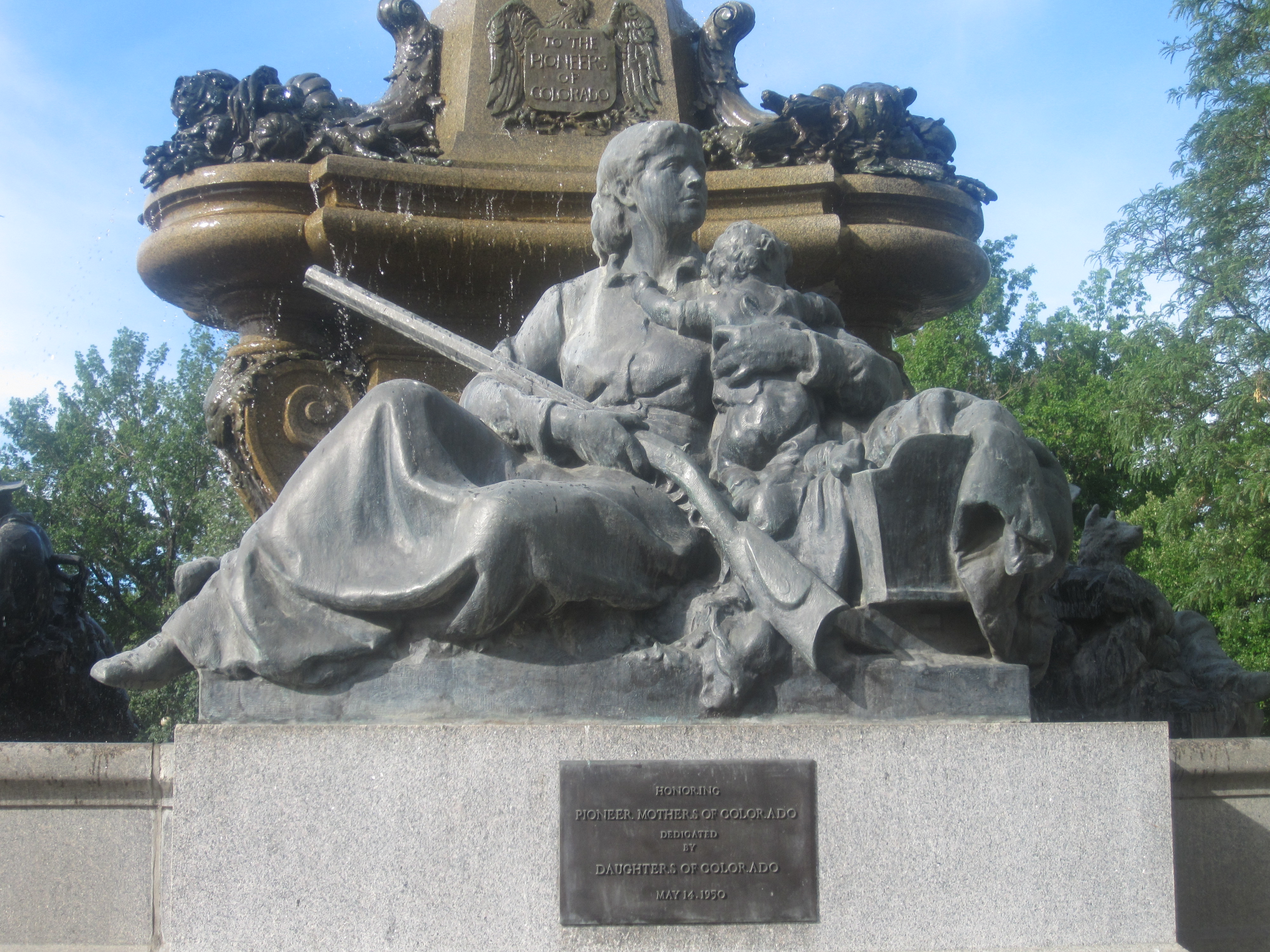 I took photo with Canon camera in Denver, CO.